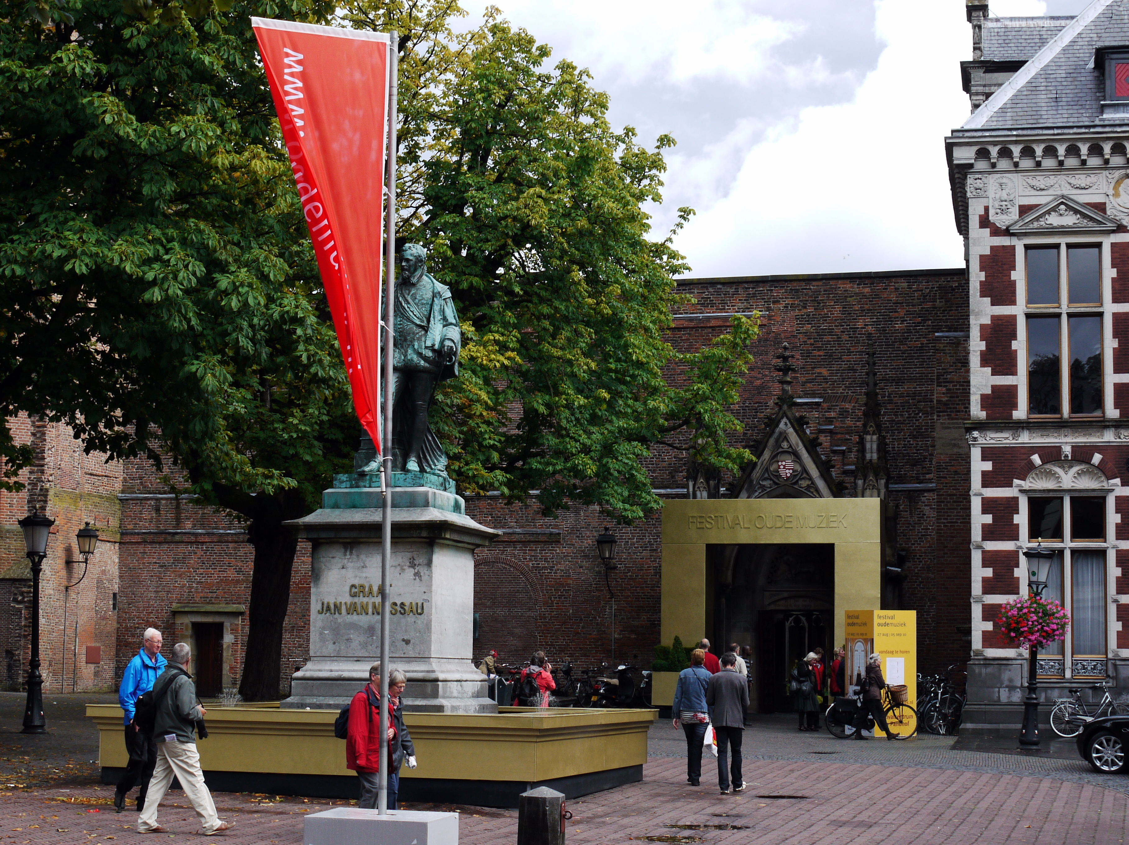 Festival centre entrance of the Festival Oude Muziek 2010, at Domplein, Utrecht (city):Utrecht.